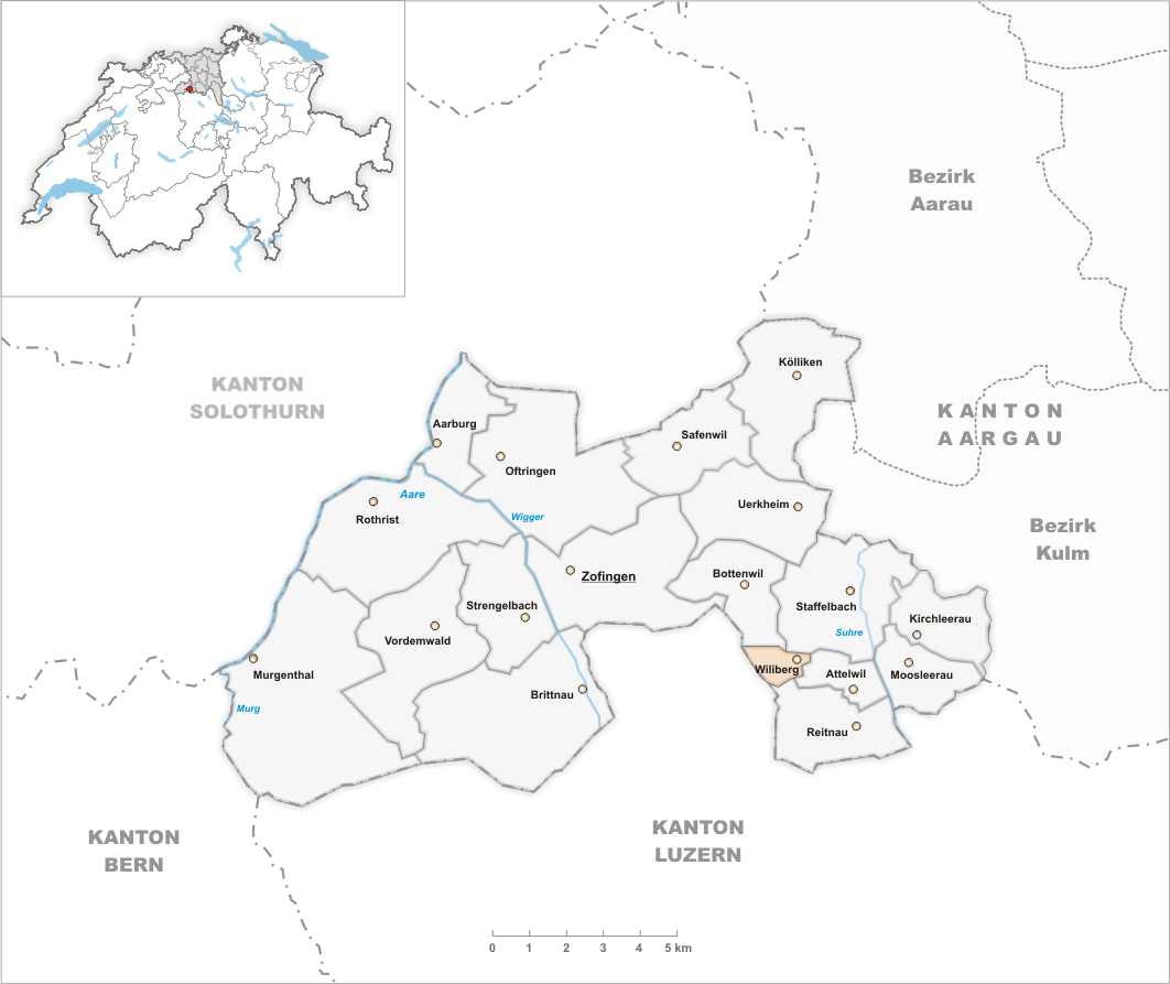 Municipality Wiliberg